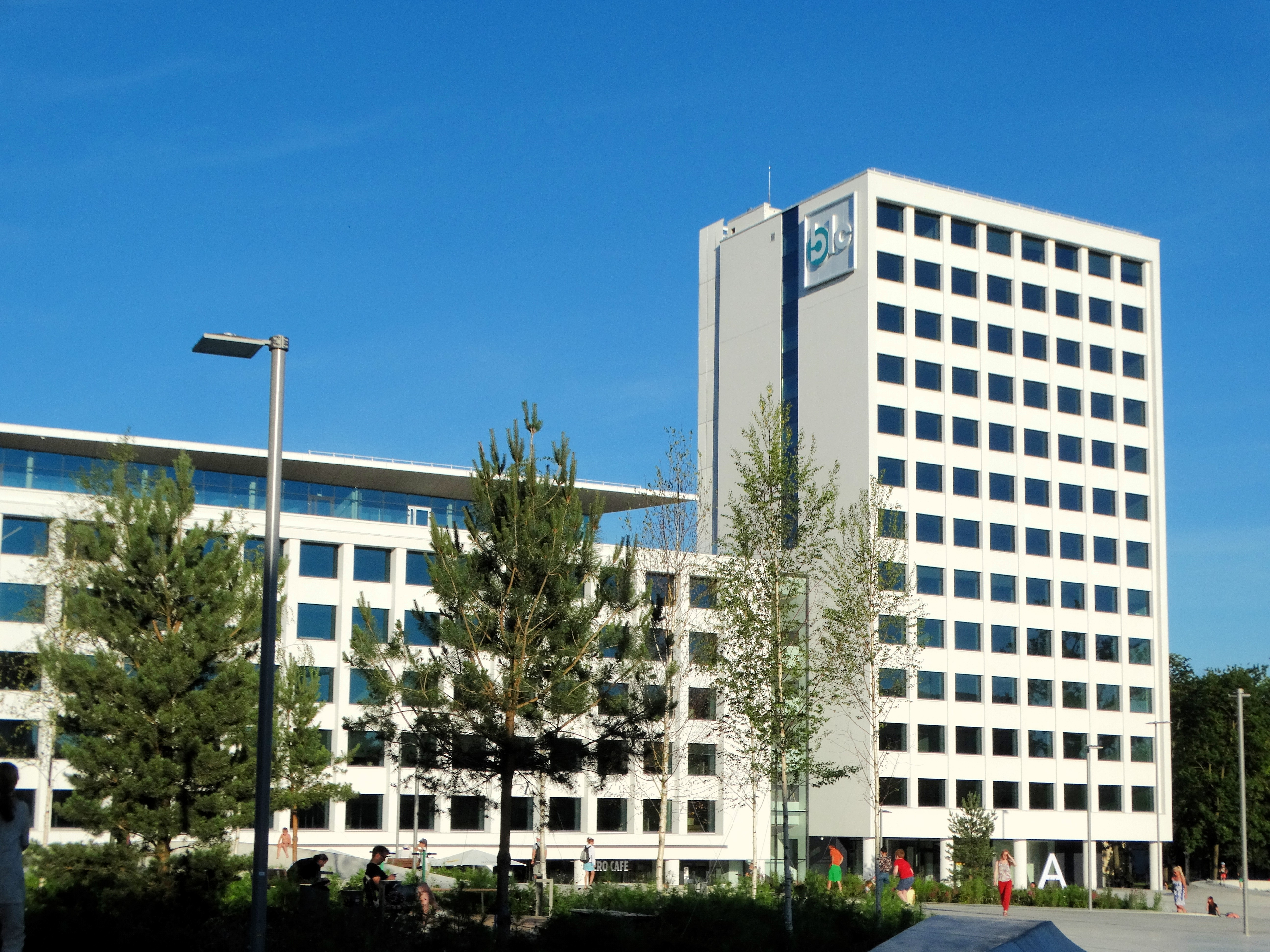 Pramprojektas office building, Kaunas, Lithuania